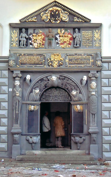 portal of the town hall in Gera, Germany